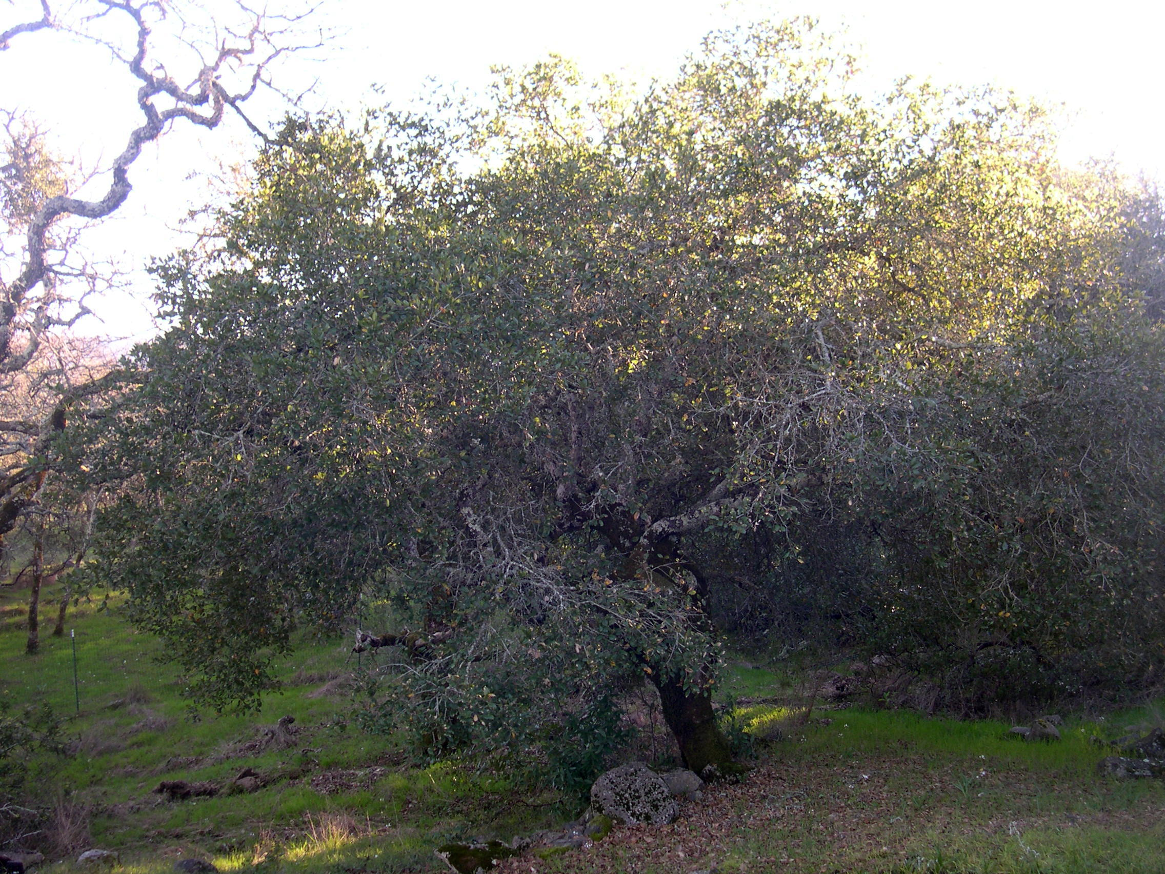 Coast live oak, Sonoma County.